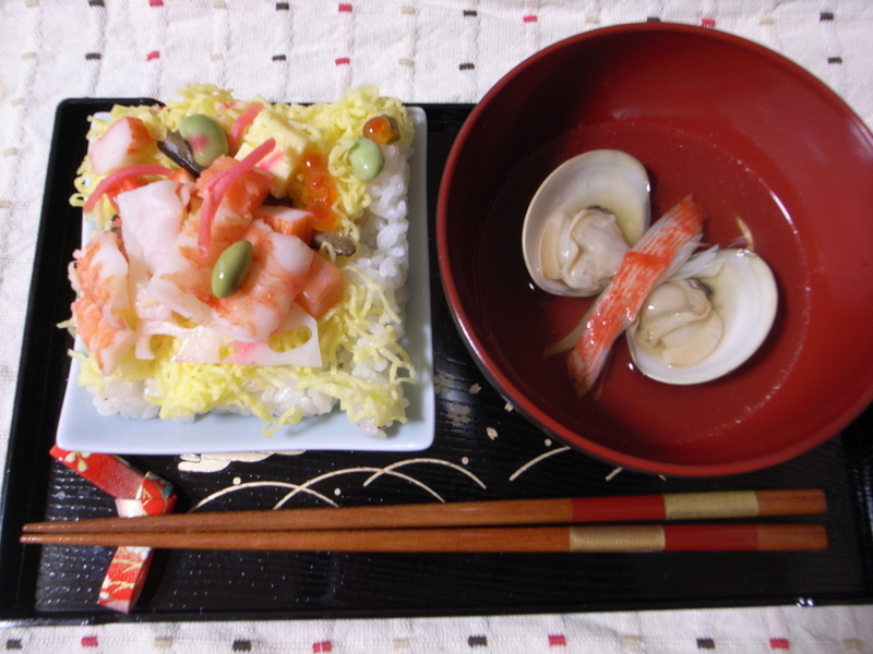 March 3rd is Hina-Matsuri, the Doll's Festival for girls. People display a set of dolls and pray for the sound growth of girls in the family.